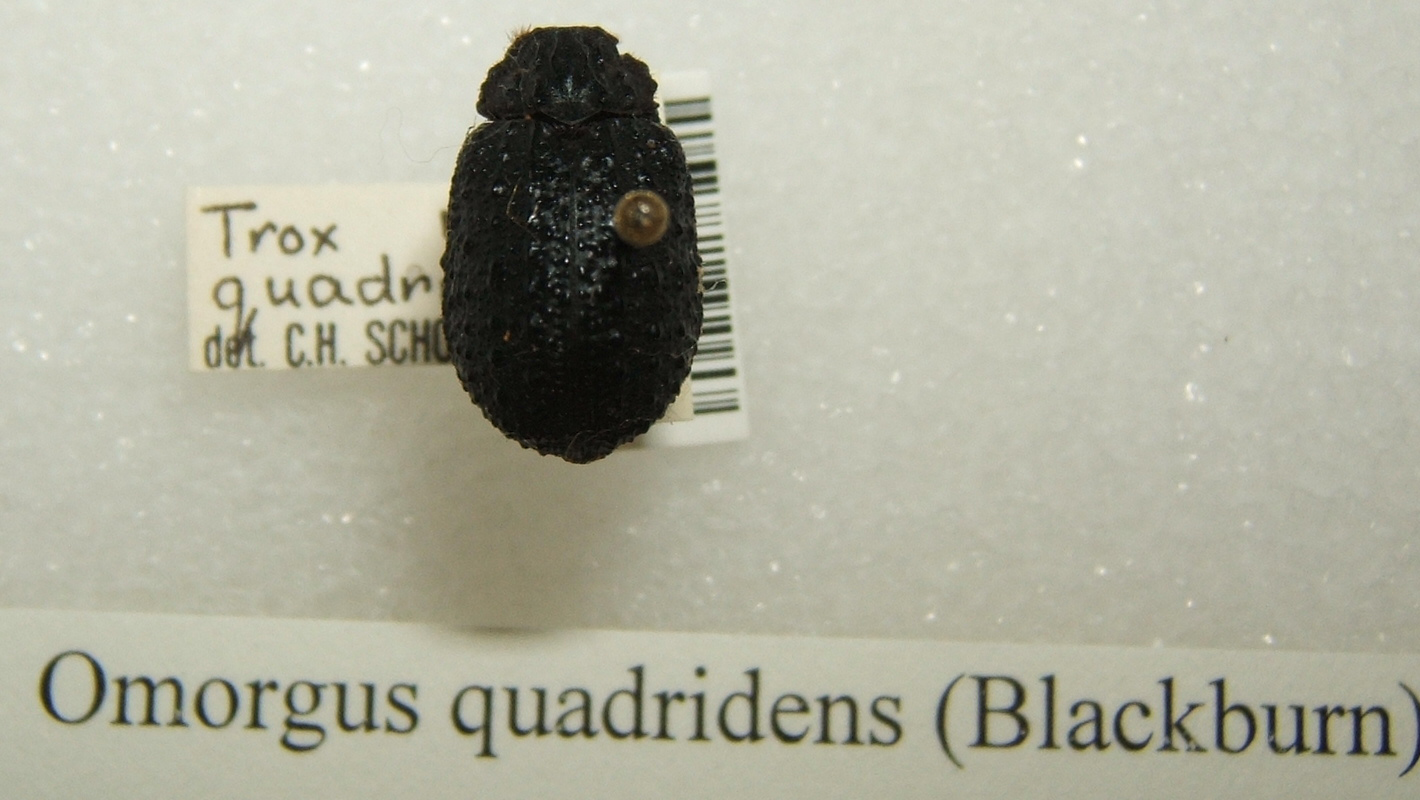 Omorgus quadridens adult taken by Shawn Hanrahan at the Texas A&M University Insect Collection in College Station, Texas.